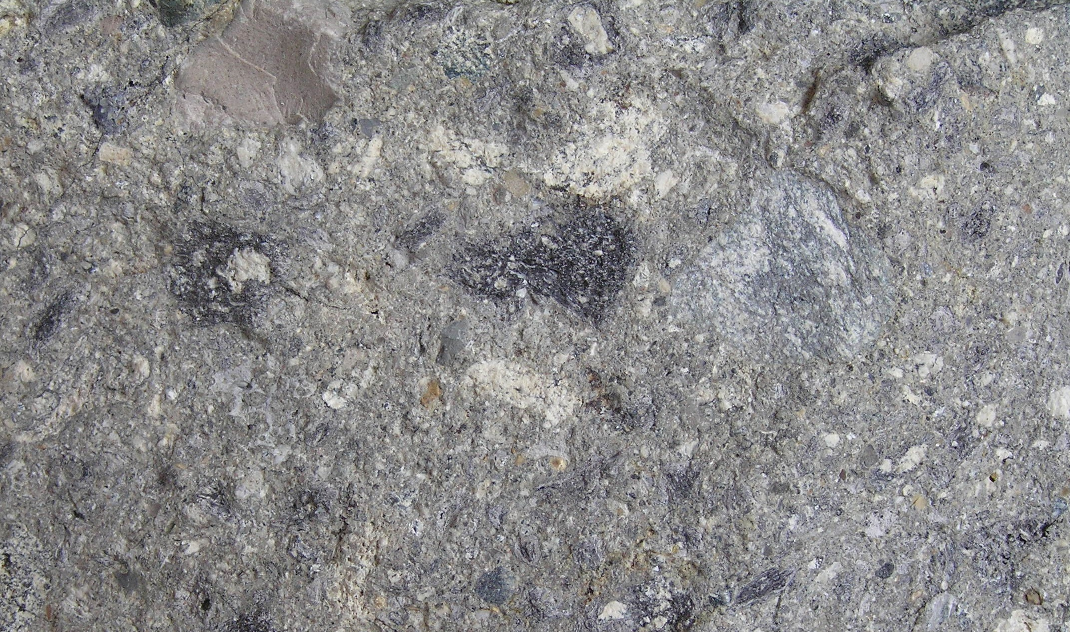 Suevit from Aufhausen